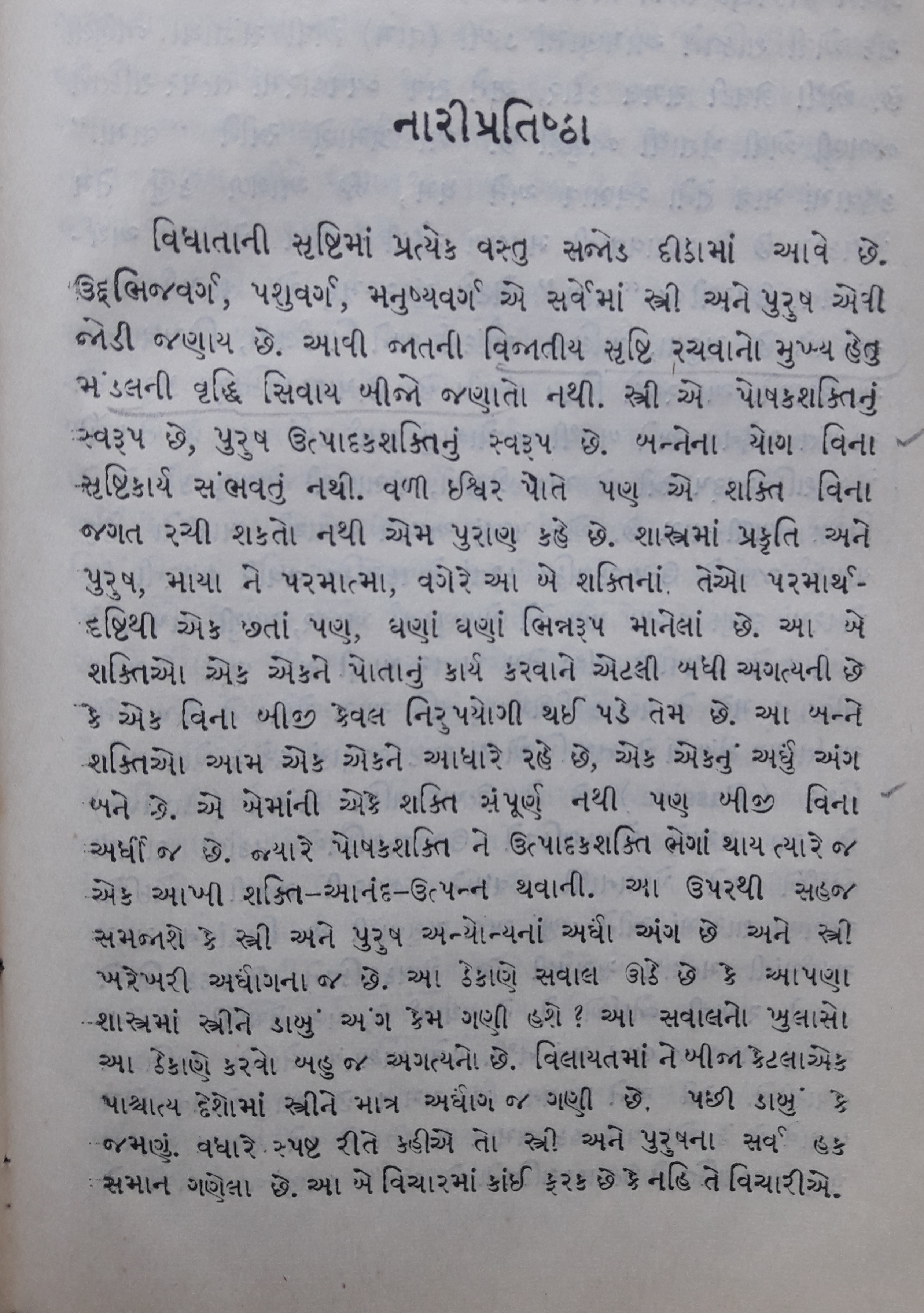 First page of Nari Pratishtha, an essay written by Gujarati writer Manilal Nabhubhai Dwivedi.